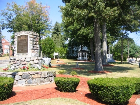 Memorial Park in Wharton NJ